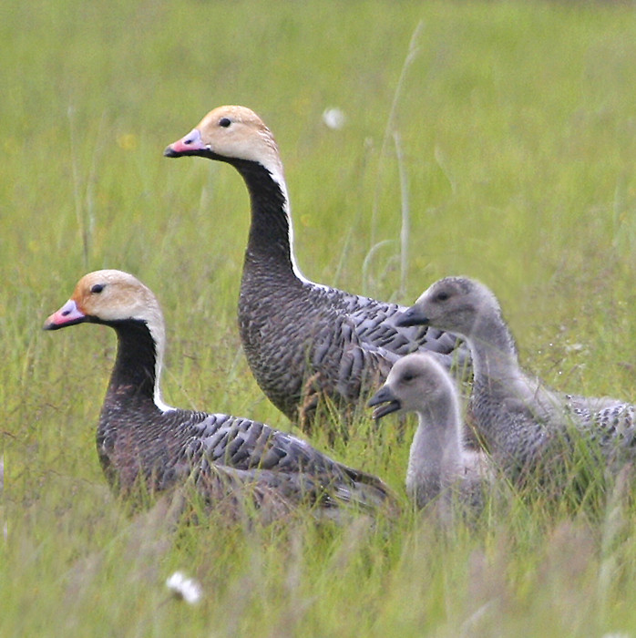 Yukon Delta National Wildlife Refuge Photo: Donna Dewhurst Collection, USFWS